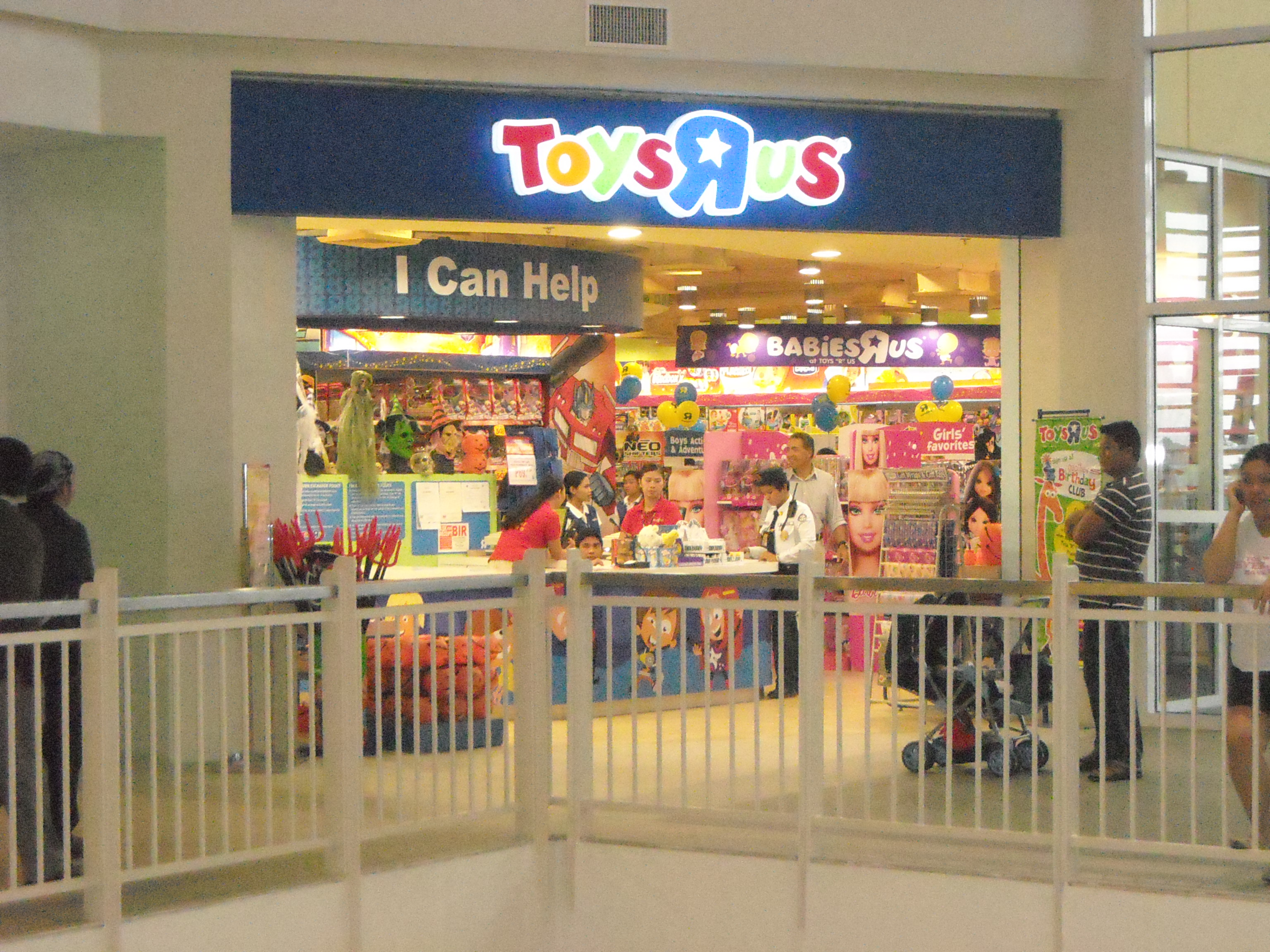 A Toys "R" Us outlet in Marquee Mall.